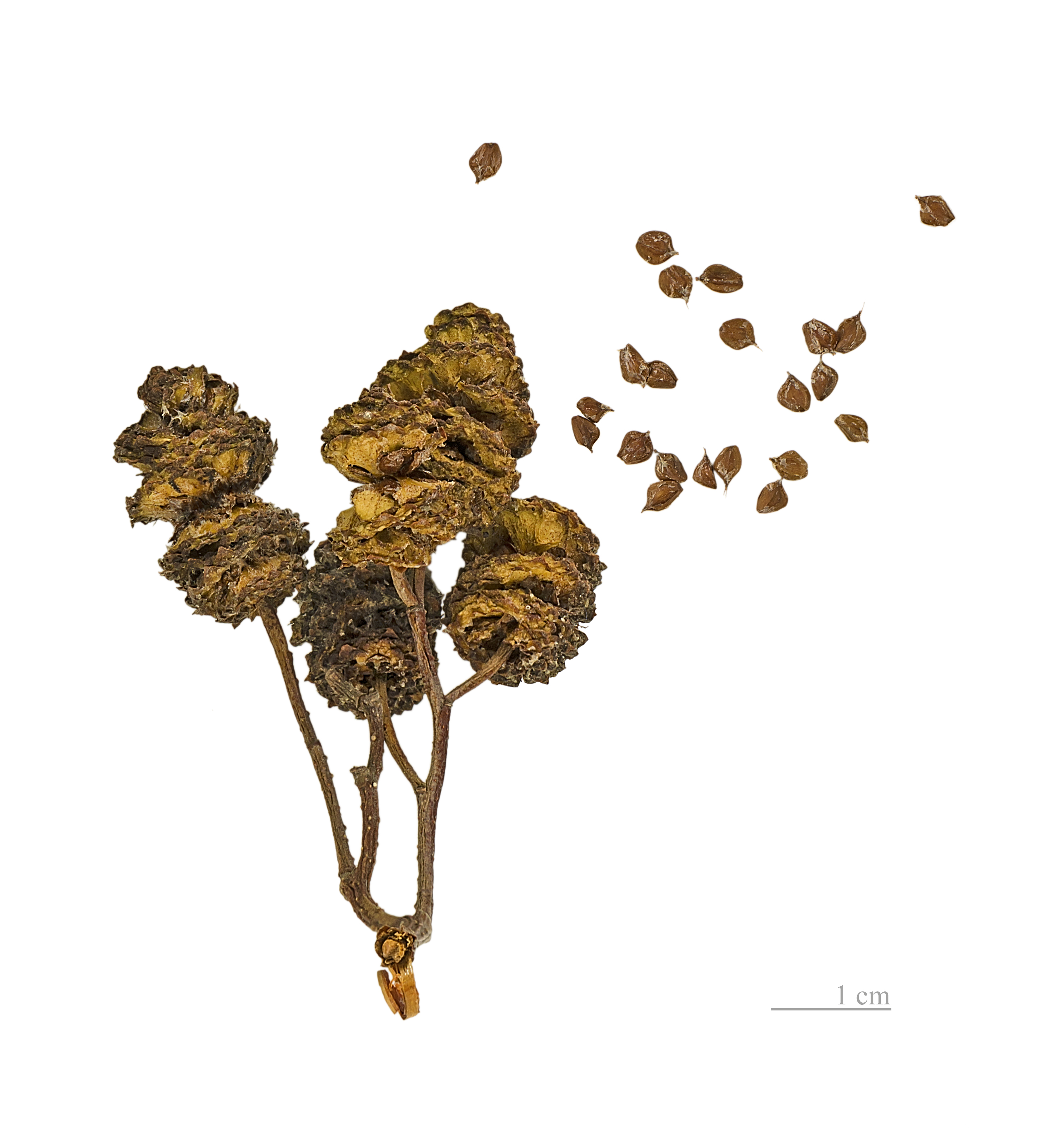 black alder, Infrutescence and Achenes.